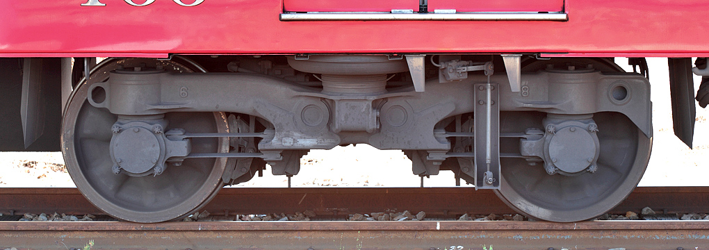 Sumitomo Metal Industries type SS-165D bogie truck of Meitetsu 100 series EMU ( 116F, Mo 166 )